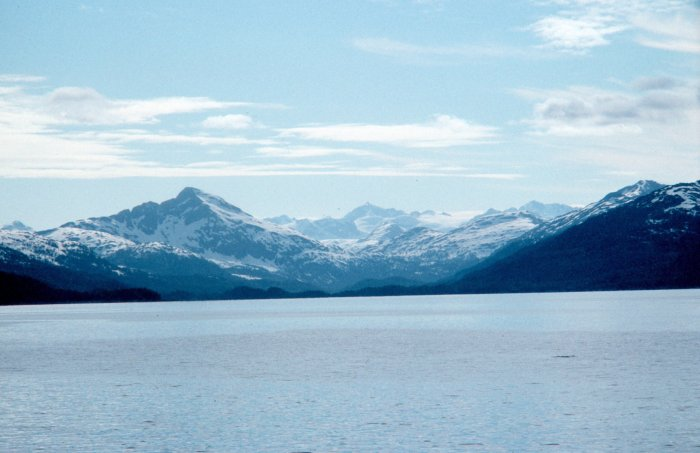 Prince William Sound, Southern Alaska